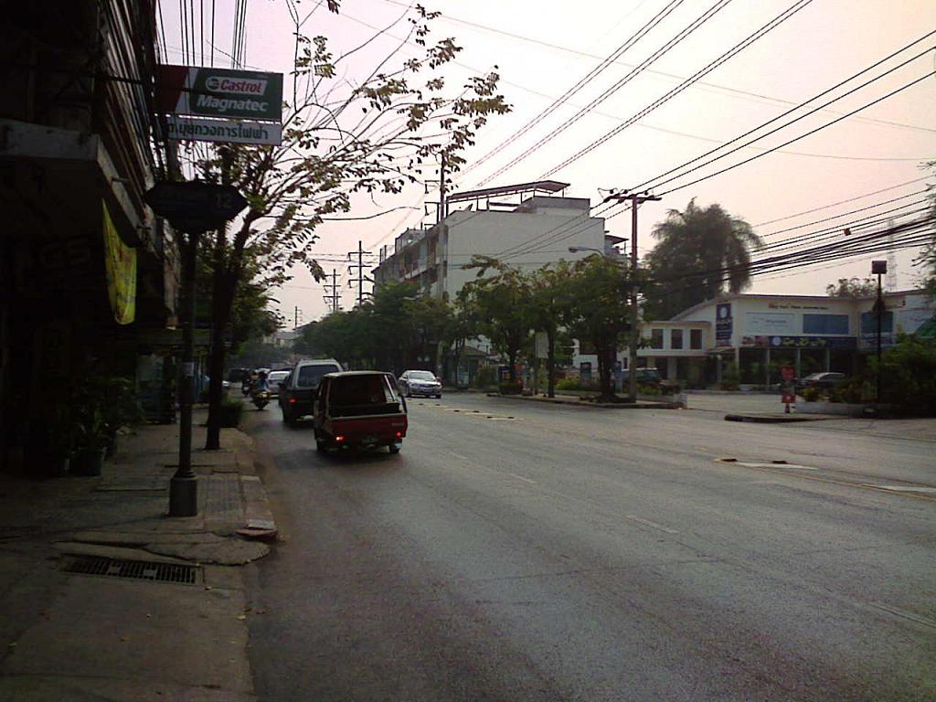 Pridi Banomyong Street,Thailand